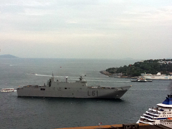 Spanish warship Juan Carlos I (L-61) enters Istanbul